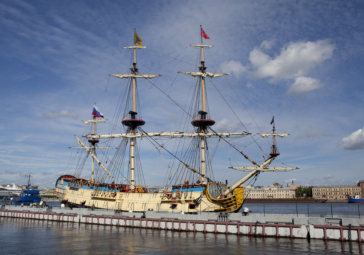 Poltava was a 54-gun ship of the line of the Russian Navy.